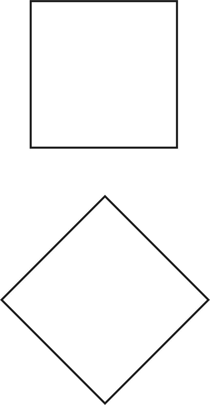 Mach's Gestalt demonstration: though geometrically identical, square and diamond appear to be different configurations (Gestalten)